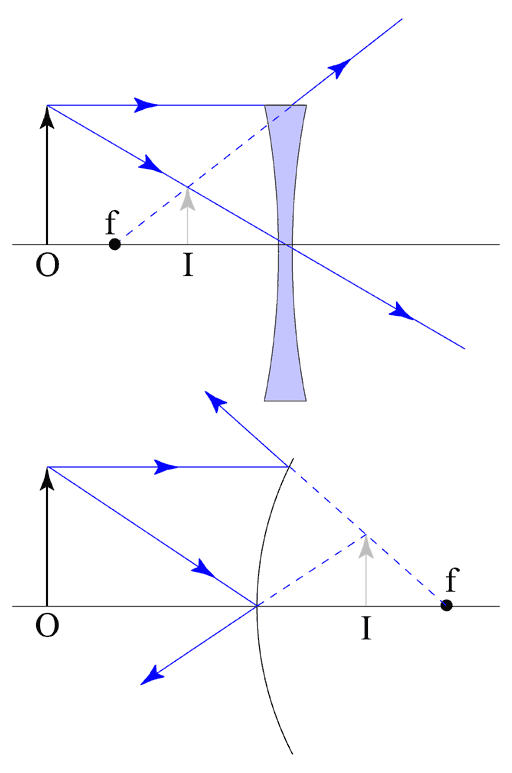 Virtual image from lens and mirror (The bottom image: Although the virtual image is in the right place and reduced,like is supposed to be, the rays drawn to get the image are not all correct. The ray that reaches the bottom of the mirror should be crossing the focal point and then another ray drawn parallel to the axis where ever the first ray hit the mirror. Thus setting the image where the rays converge.)